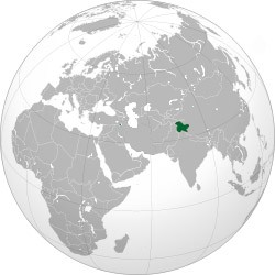 downloaded from google earth